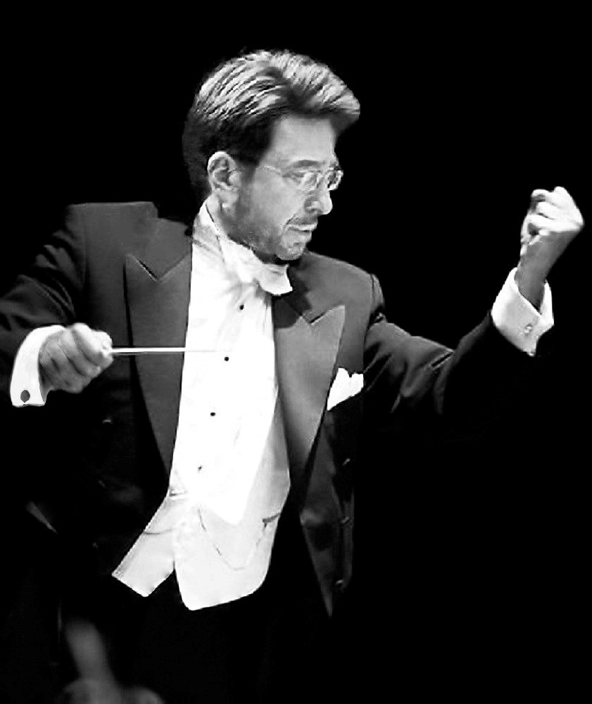 Gahres, James Allen (2011)